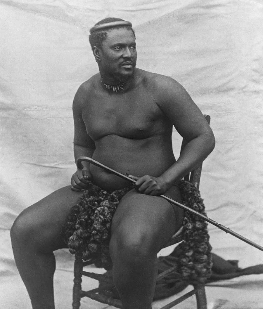 Photograph of a photographic image from a Victorian glass magic lantern slide, South Africa c1875, labelled "Cetewayo".